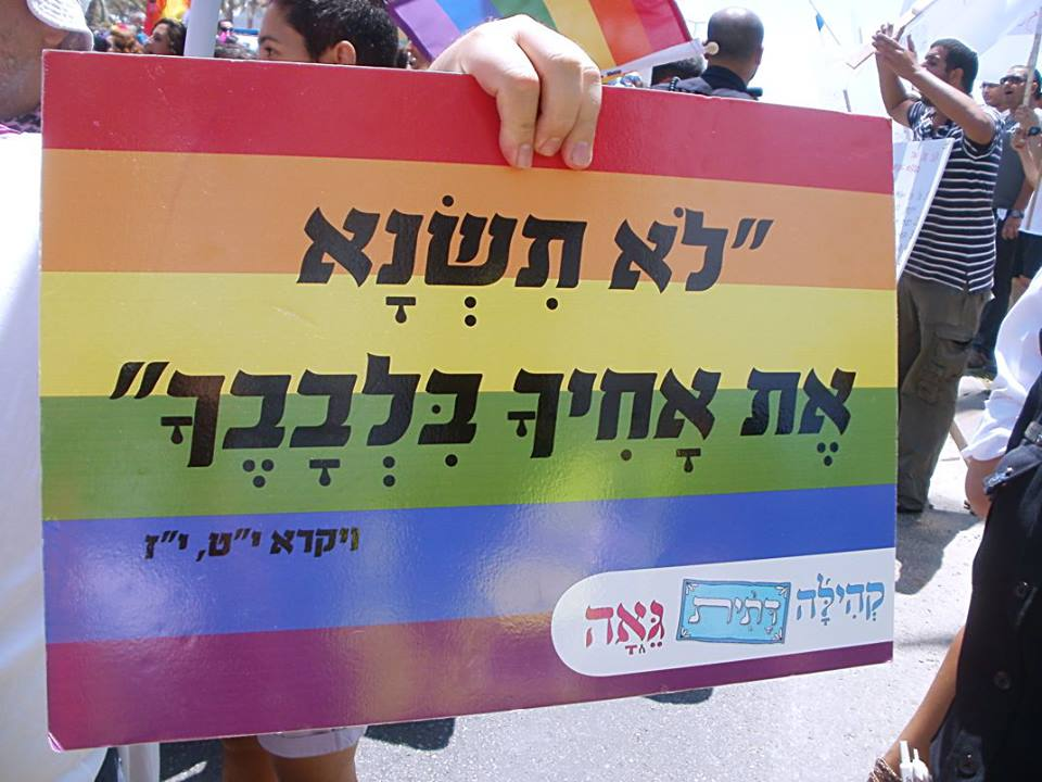 Gay Pride sign, directed at religious homophobia: "Do not hate your brother in your heart" Leviticus 19:17. Hebrew script on the rainbow flag. Pride parde in Ashdod, Israel, June 21, 2013